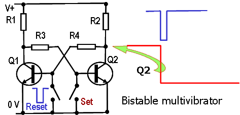 Bistable Multivibrator with output signal when triggered